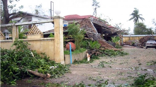 One of many homes that were destroyed in the city of Rangoon, Burma following Cyclone Nargis May 5, 2008. [State Department photo]